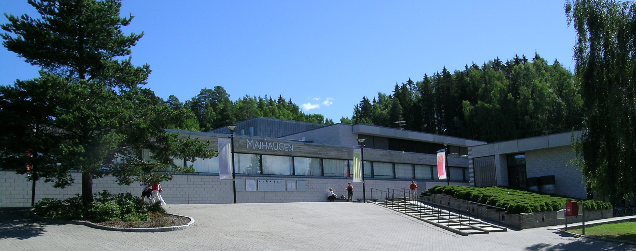 Maihaugen folk museum, Lillehammer, Norway. Administration and exhibition building.